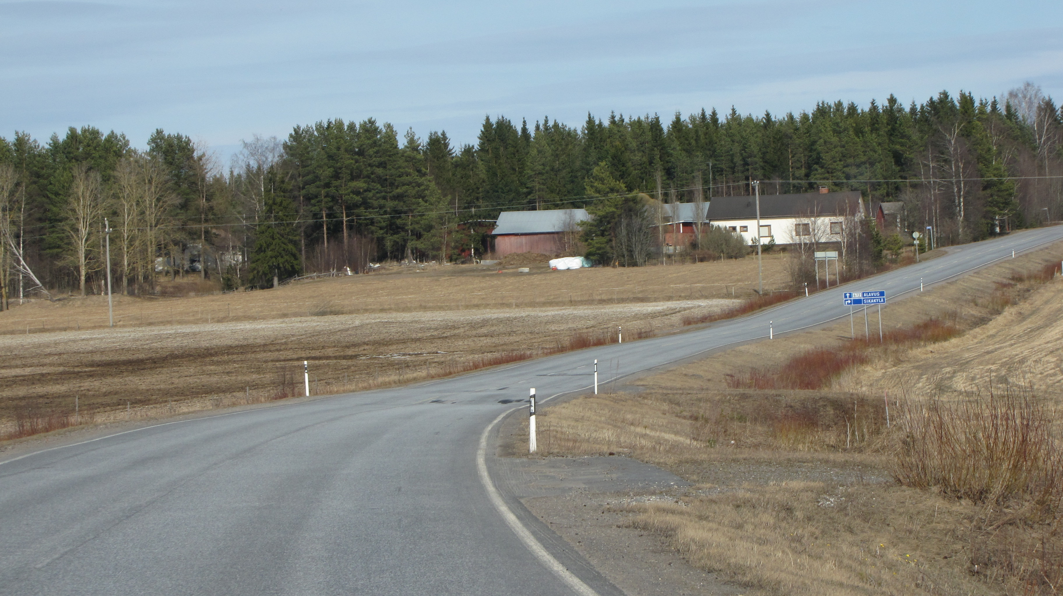 Regional road 672 (Tokerotie) in Taivalmaa village, Jalasjärvi, Finland.